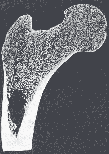 Frontal longitudinal midsection of upper femur.